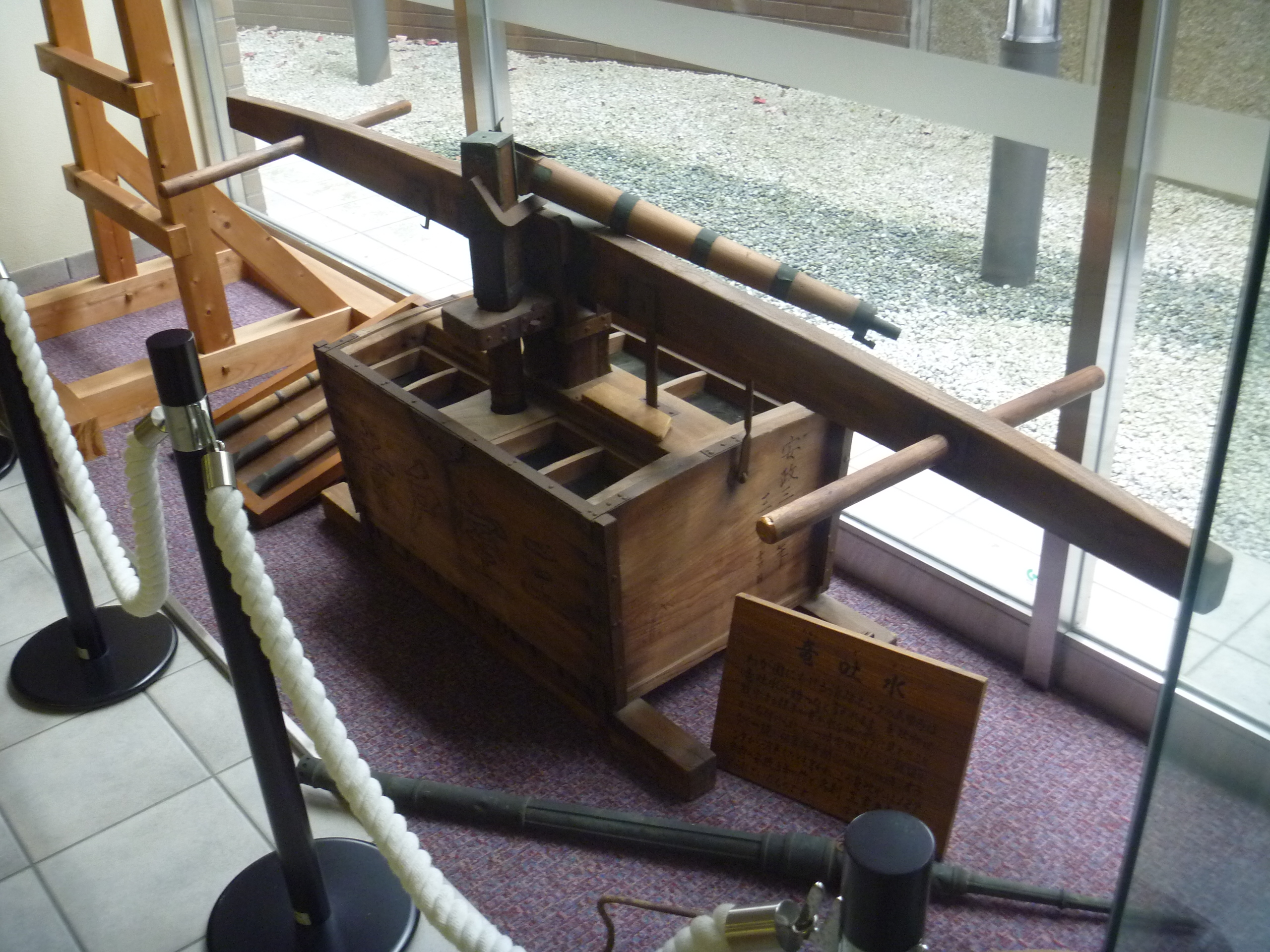 Ryudosui, a kind of the fire extinguisher used in the Edo period.